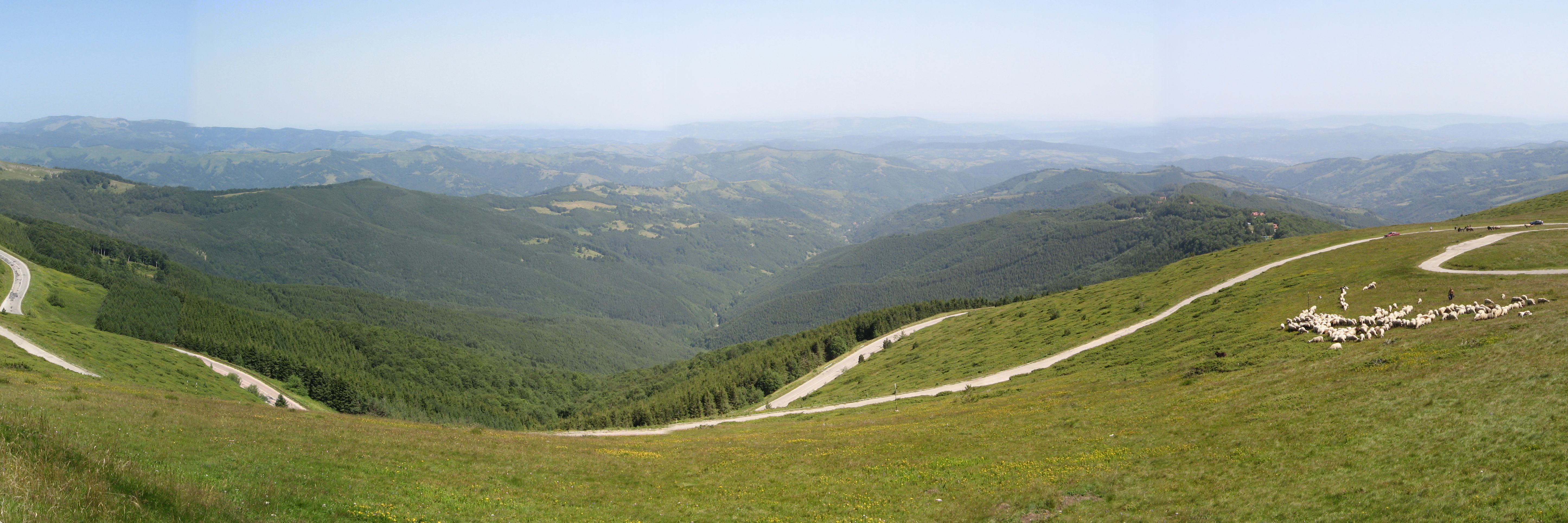 Beklemeto-pass panorama, Bulgaria